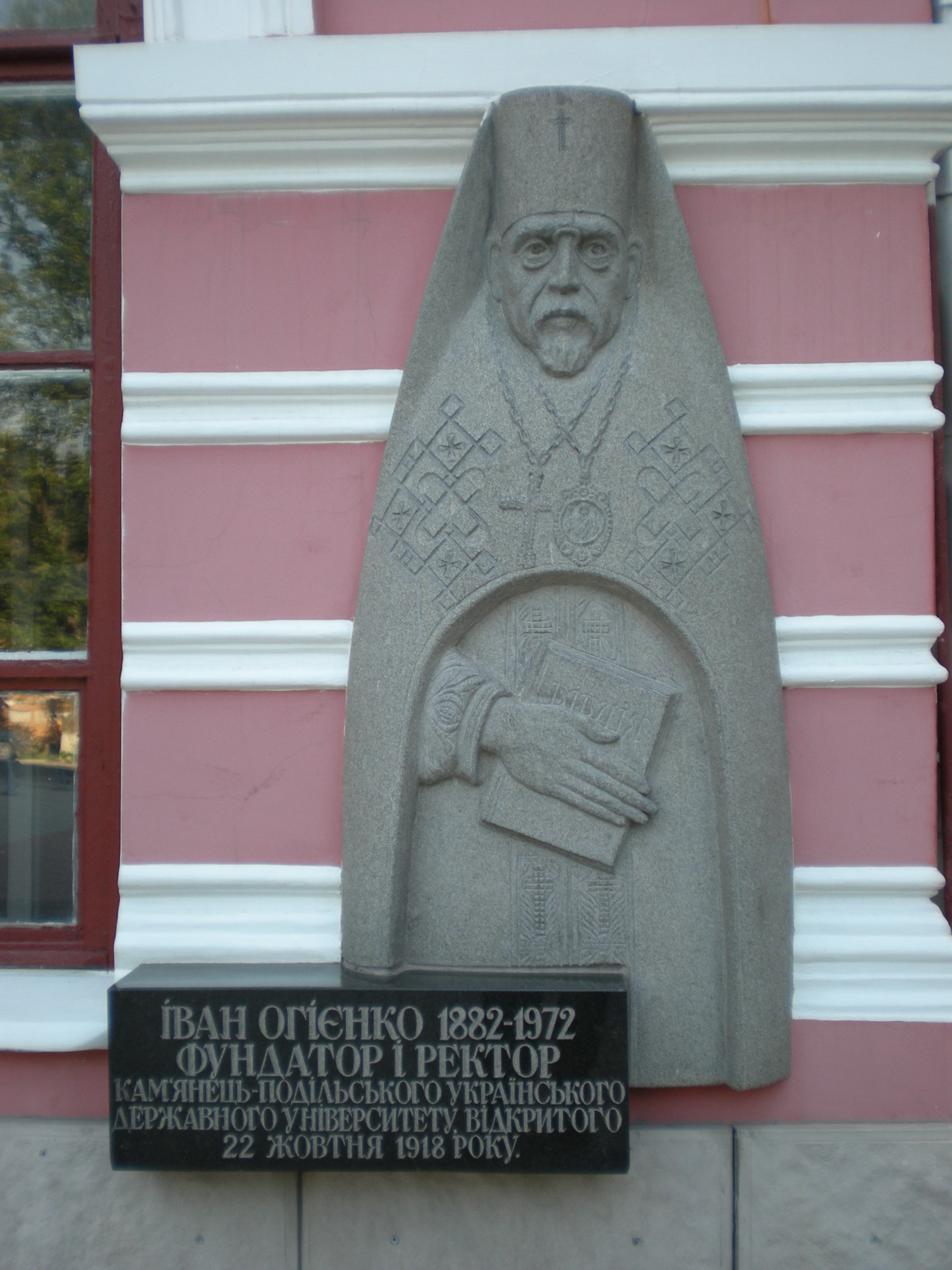 Kamieniec Podolski national university